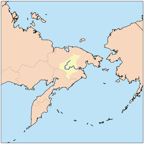 This is a map of the Anadyr River Watershed, based on USGS data.